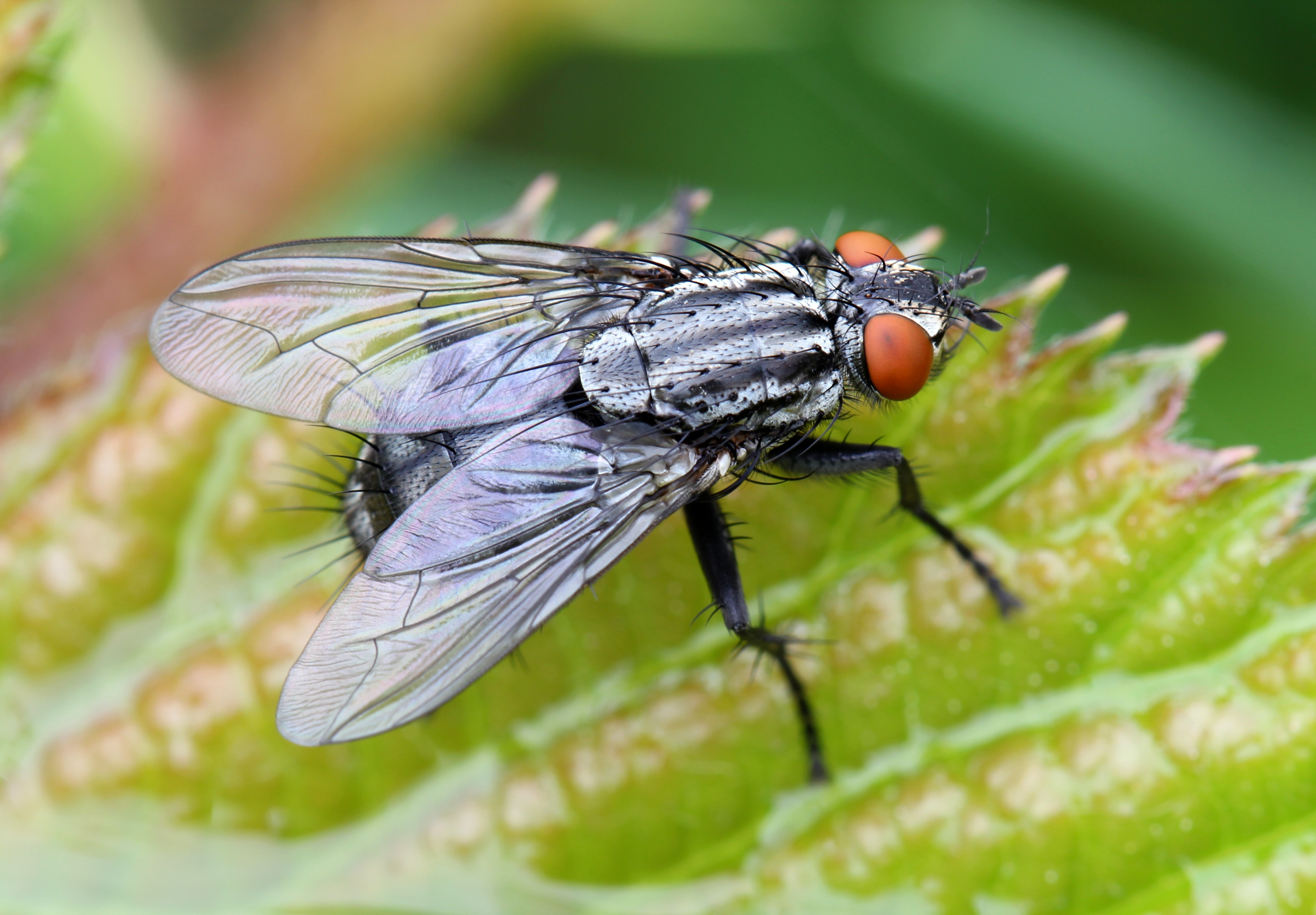 Sarcophaga sp. (Flesh Fly), taken in Trent Park, Enfield, UK